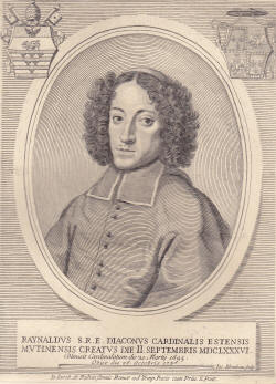 Cardinal Rinaldo d'Este (later duke of Modena)